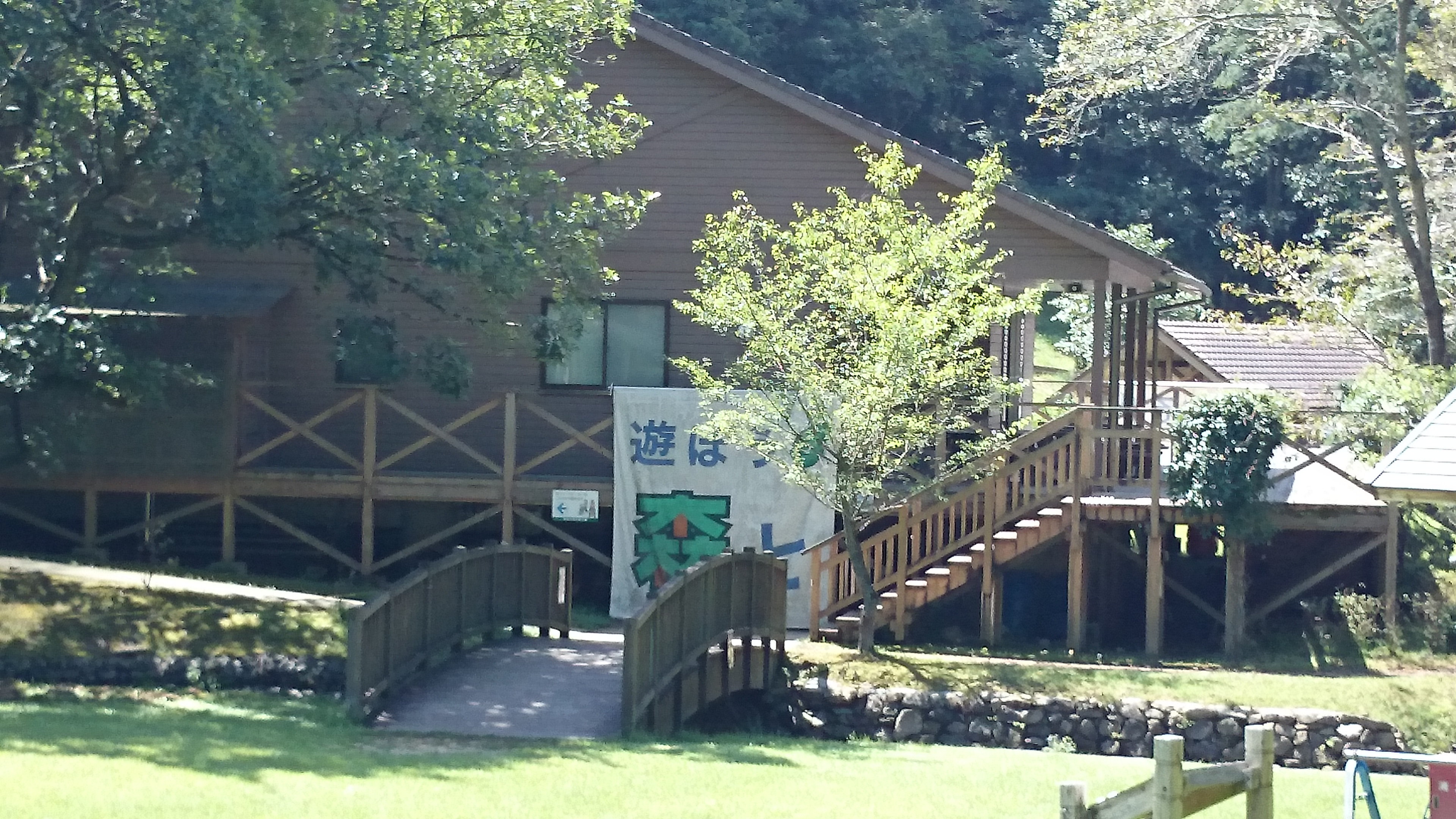 20150824 Park of Yumesaki-no-mori ゆめさきの森公園 〒671-2116 兵庫県姫路市夢前町寺2160-2 TEL：079-337-3220 FAX：079-337-3221